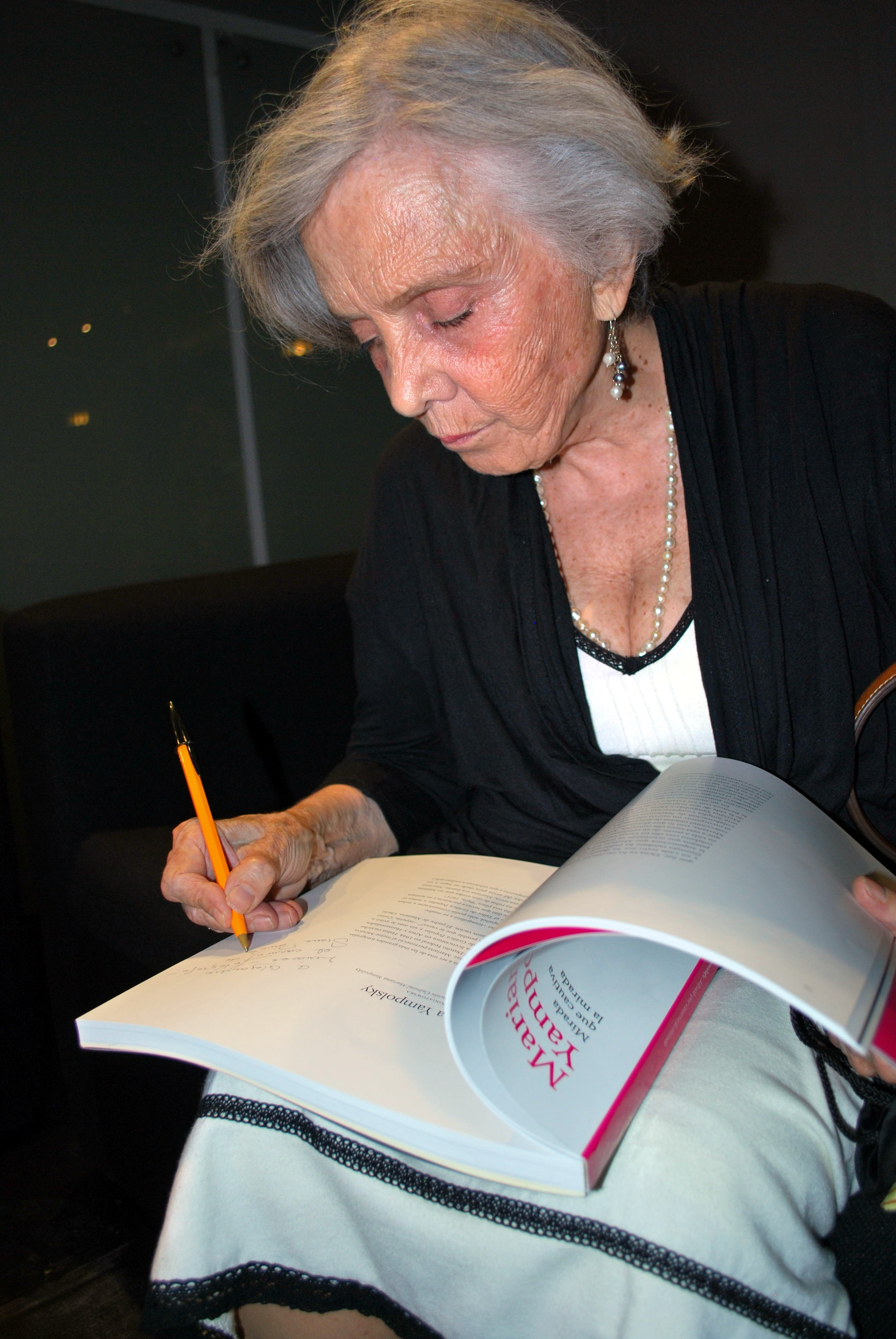 Elena Poniatowska autographing book of Wikipedian Alejandro Linares Garcia at the book presentation at the Museo de Arte Popular in Mexico City